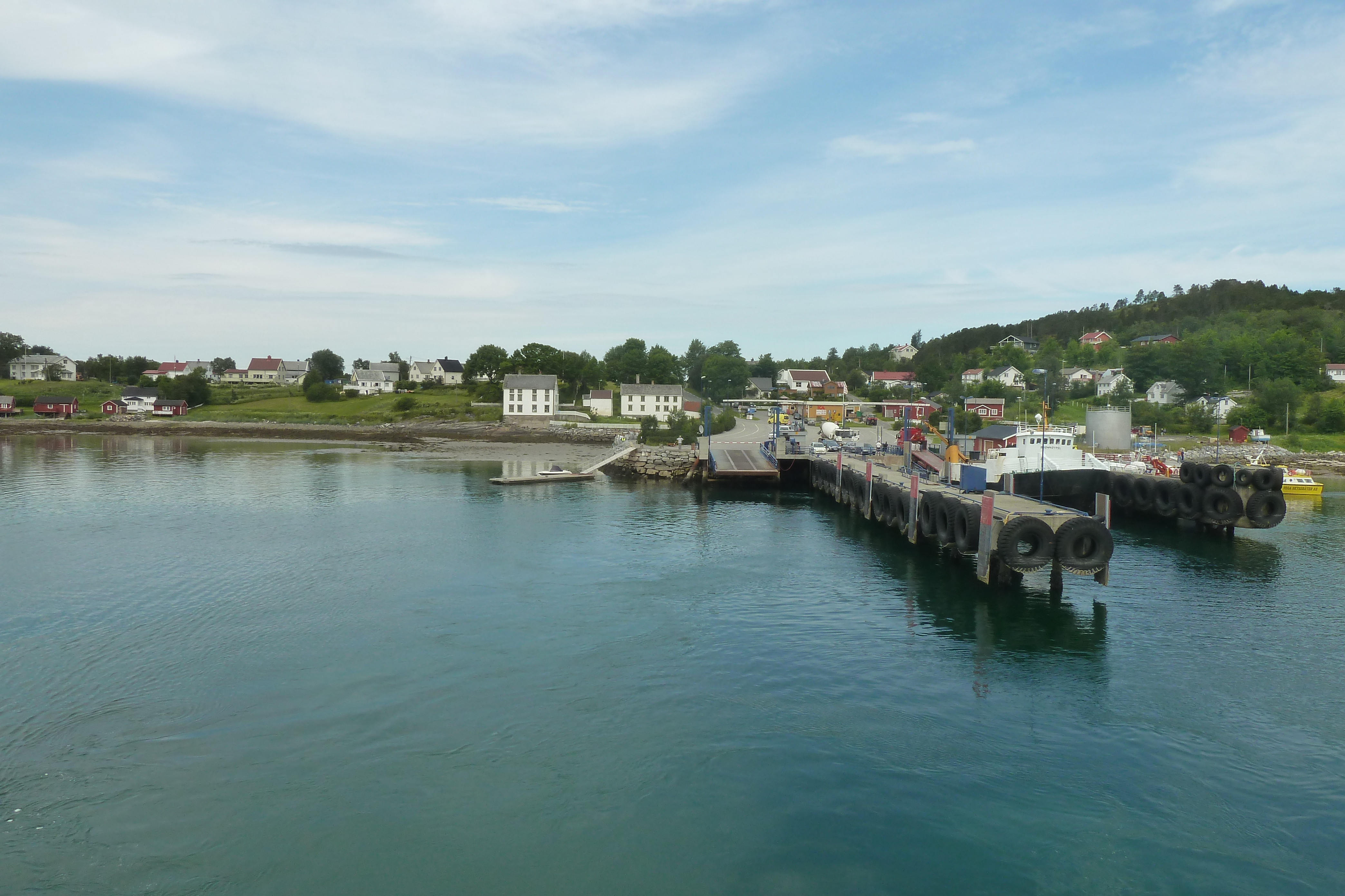 The ferrydock in Tjøtta, Nordland, Norway.